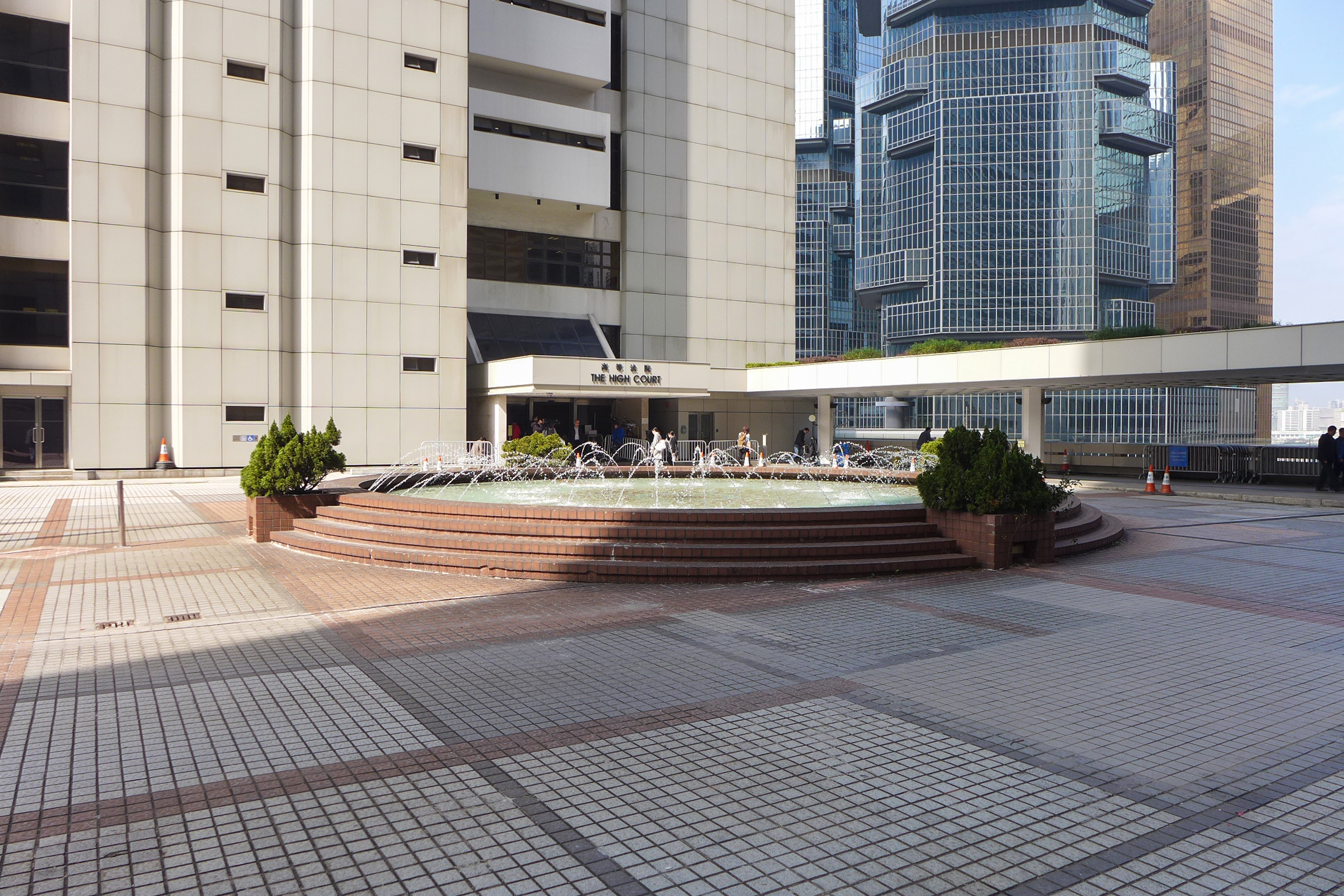 The High Court Drop off area